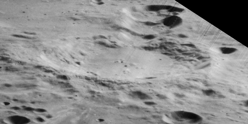 Oblique view of Alder, on the far side of the moon, facing west.